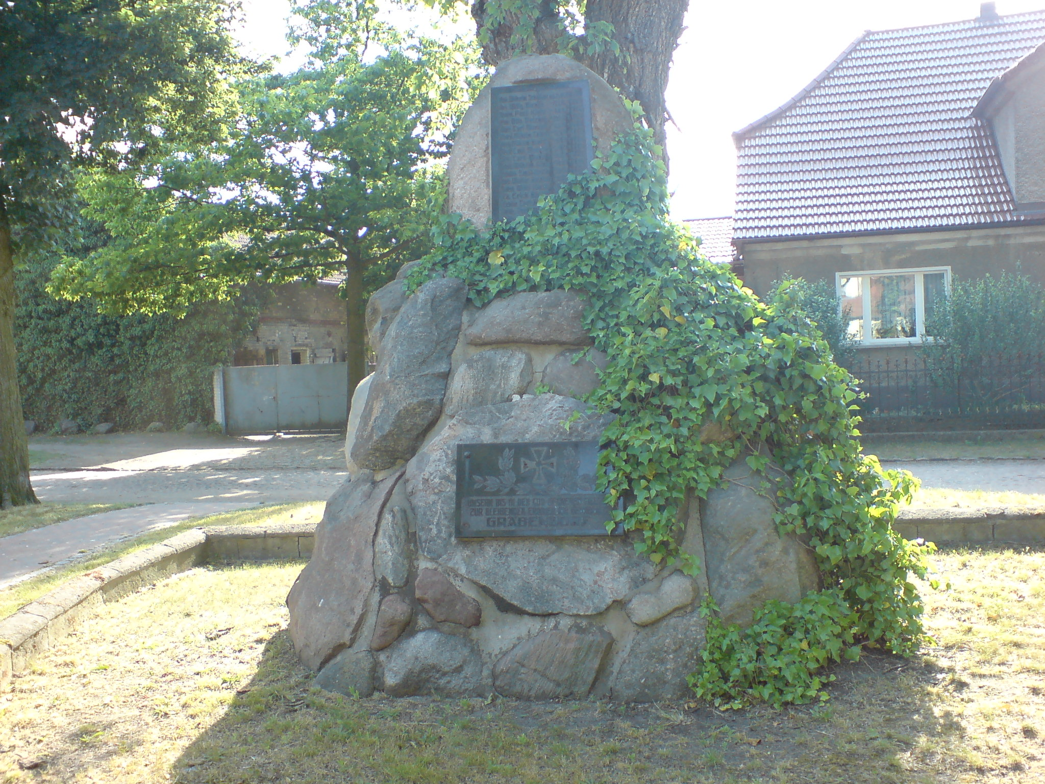 roll of honor for the victims of worldwar I (inaugurated 14. July 1921) in Gräbendorf, Brandenburg, Germany